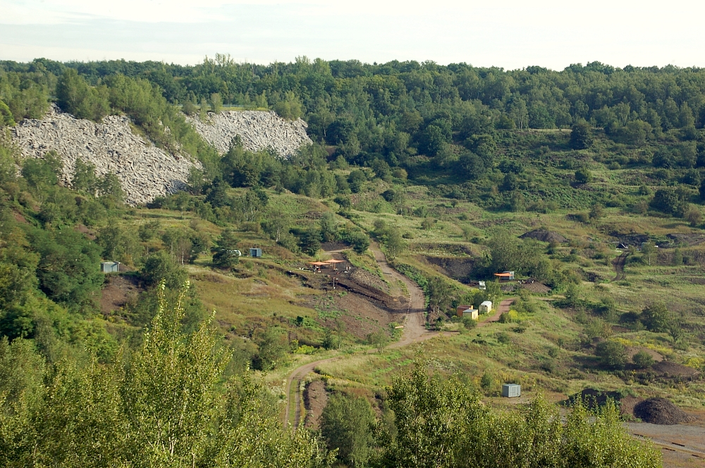 Grube Messel, near Darmstadt, Germany